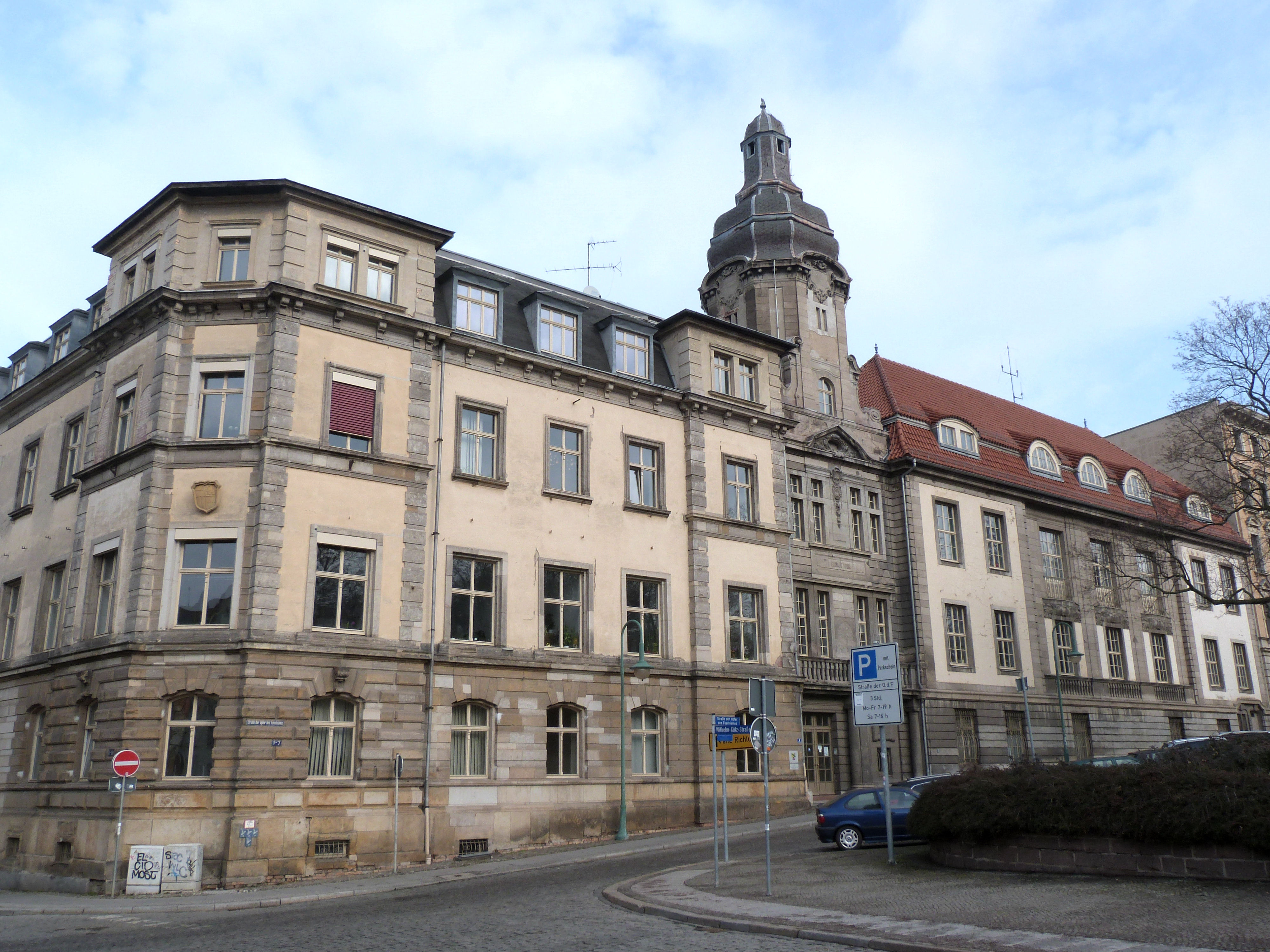 Former District office from 1885/1908-09, corner building Wilhelm-Külz-Straße No. 10 / Straße der Opfer des Faschismus 1, Halle (Saale)